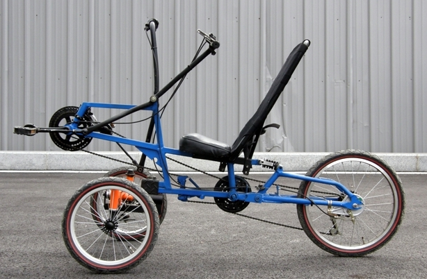 hand & foot recumbent trike2